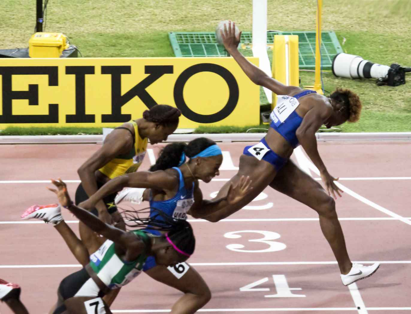 DOH90125 100mH women final ali visser harrison williams